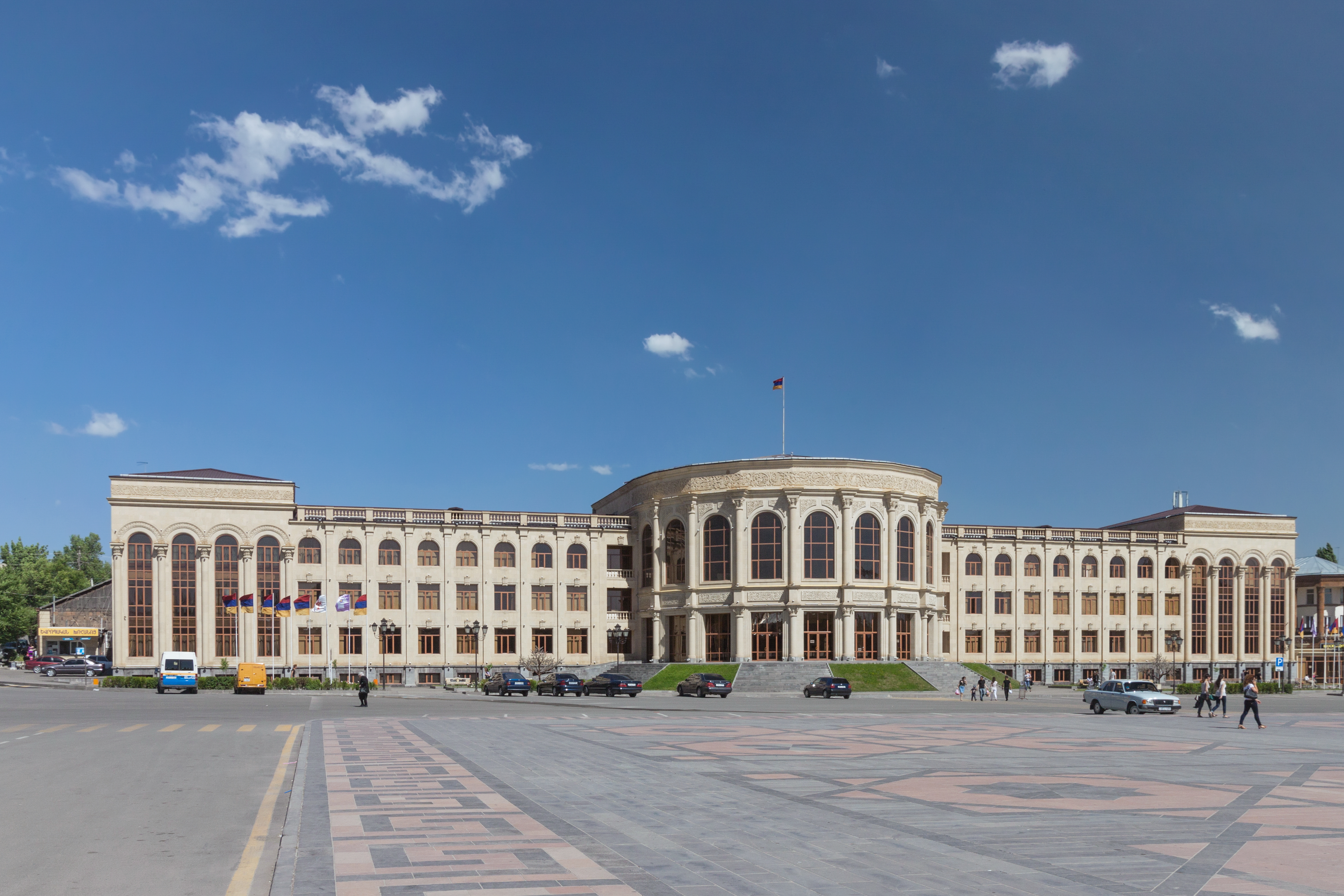 City Hall. Gyumri, Shirak Province, Armenia.